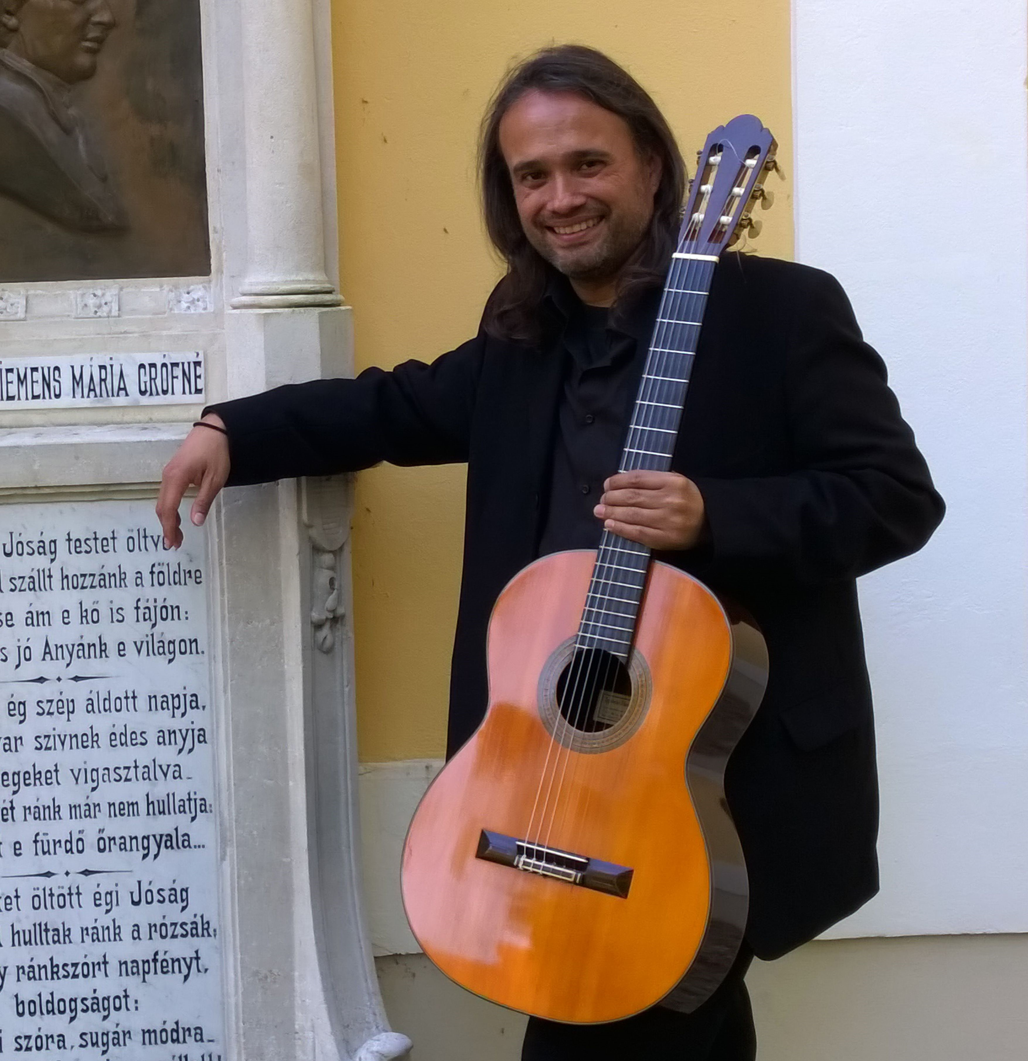 Gabriel Guillén with his José Ramirez Guitar in Balf, Hungary